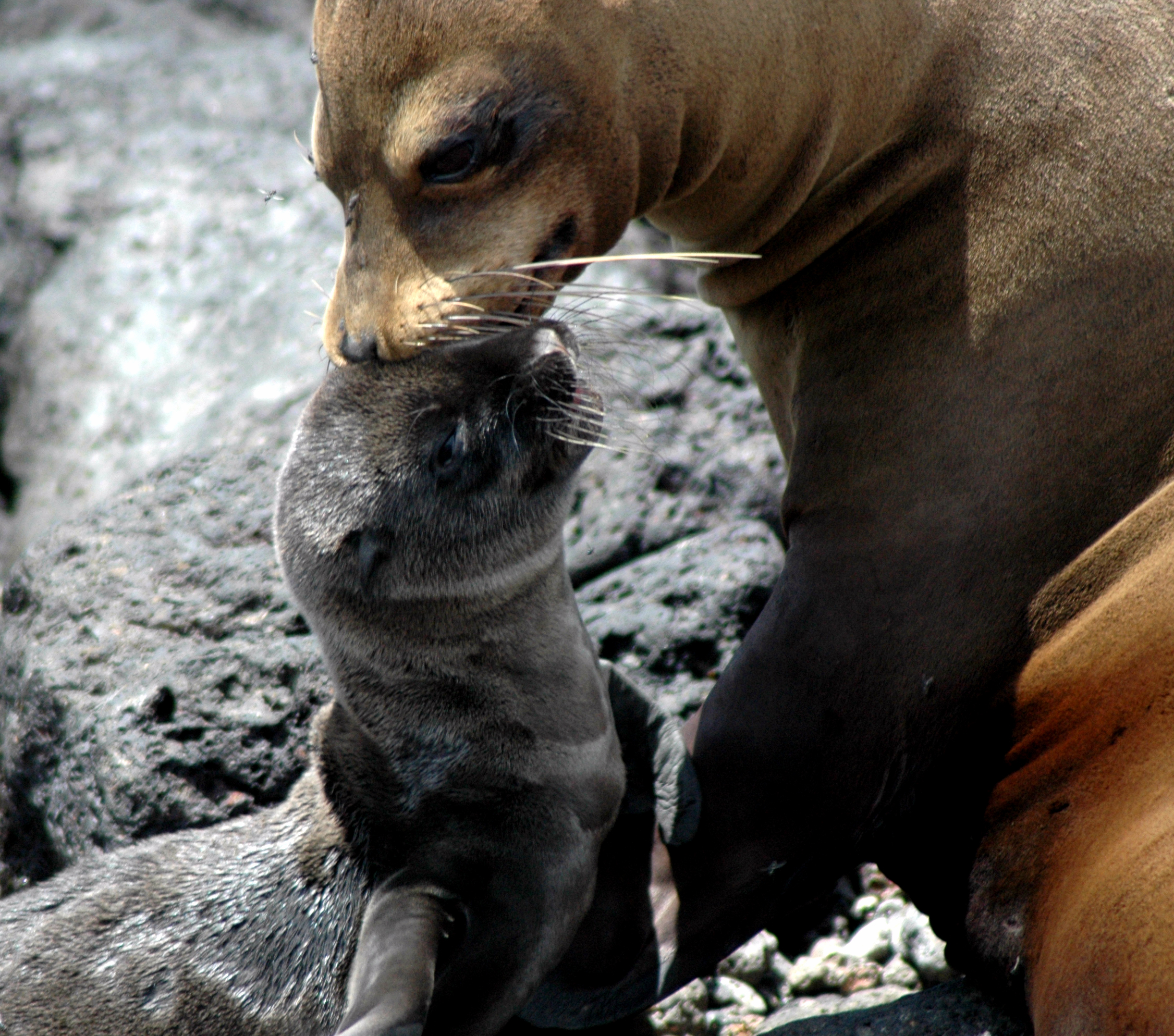 Seal pup photograph by Jamie Hawkesford.